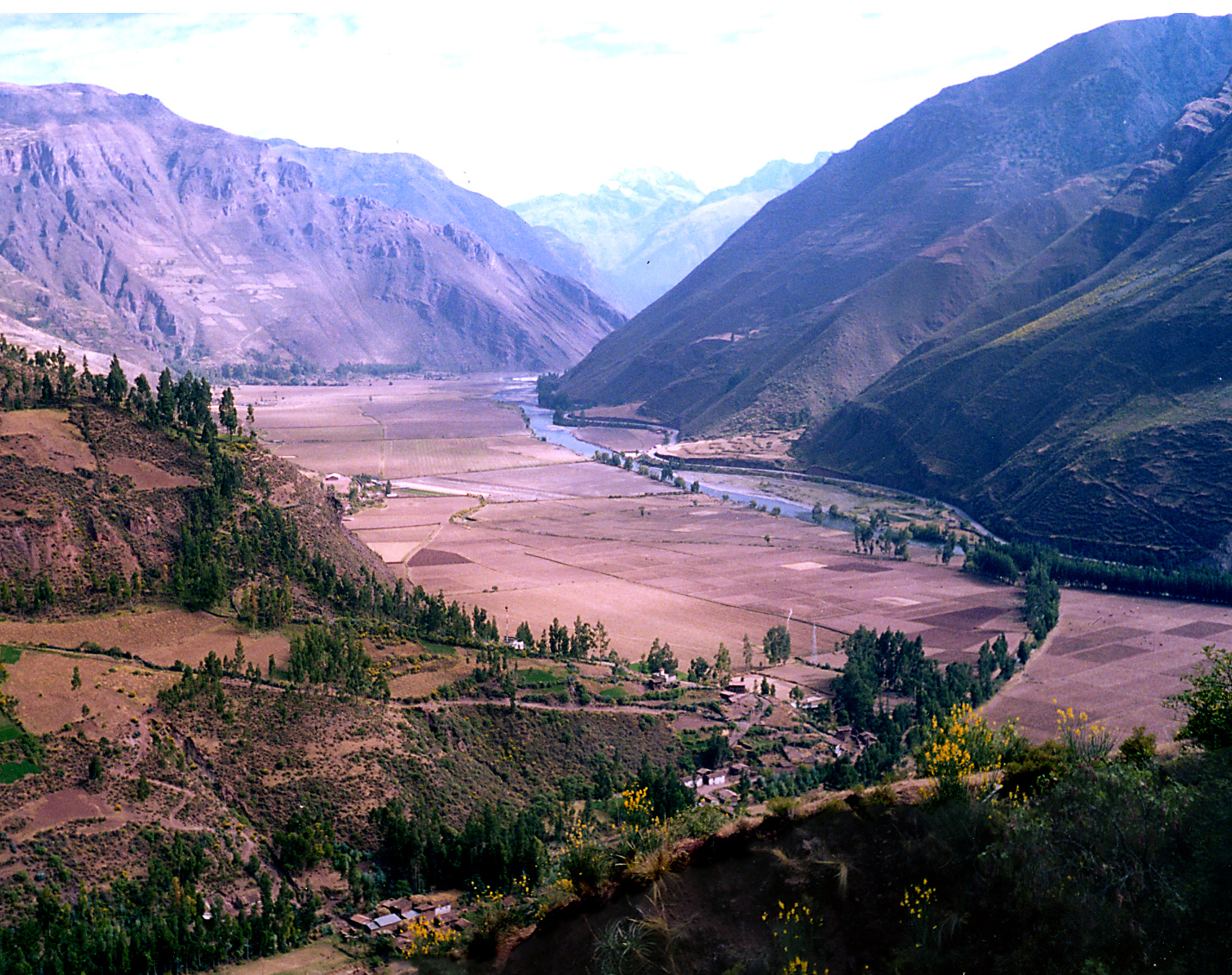 Urubamba, the sacred valley of the Incas. The photo was taken in 2002 by Håkan Svensson.